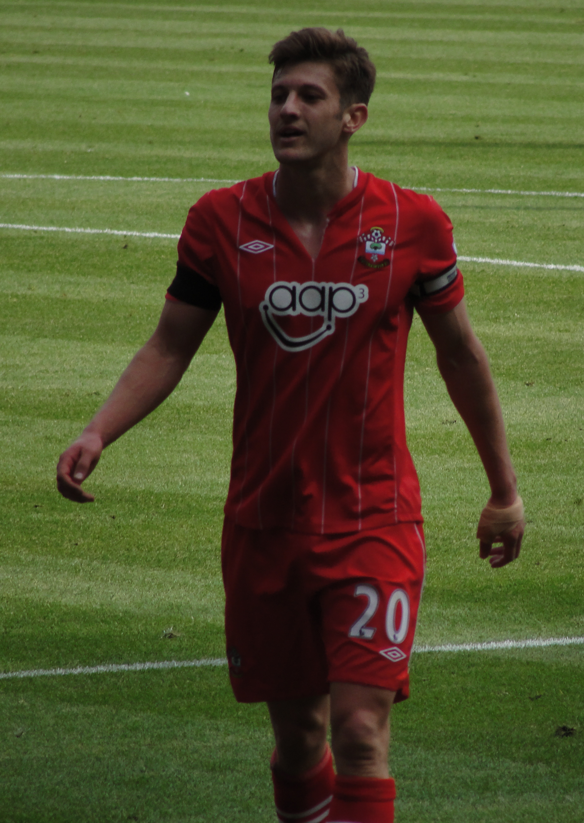 Southampton F.C. player Adam Lallana at St Mary's Stadium on 19 May 2013.